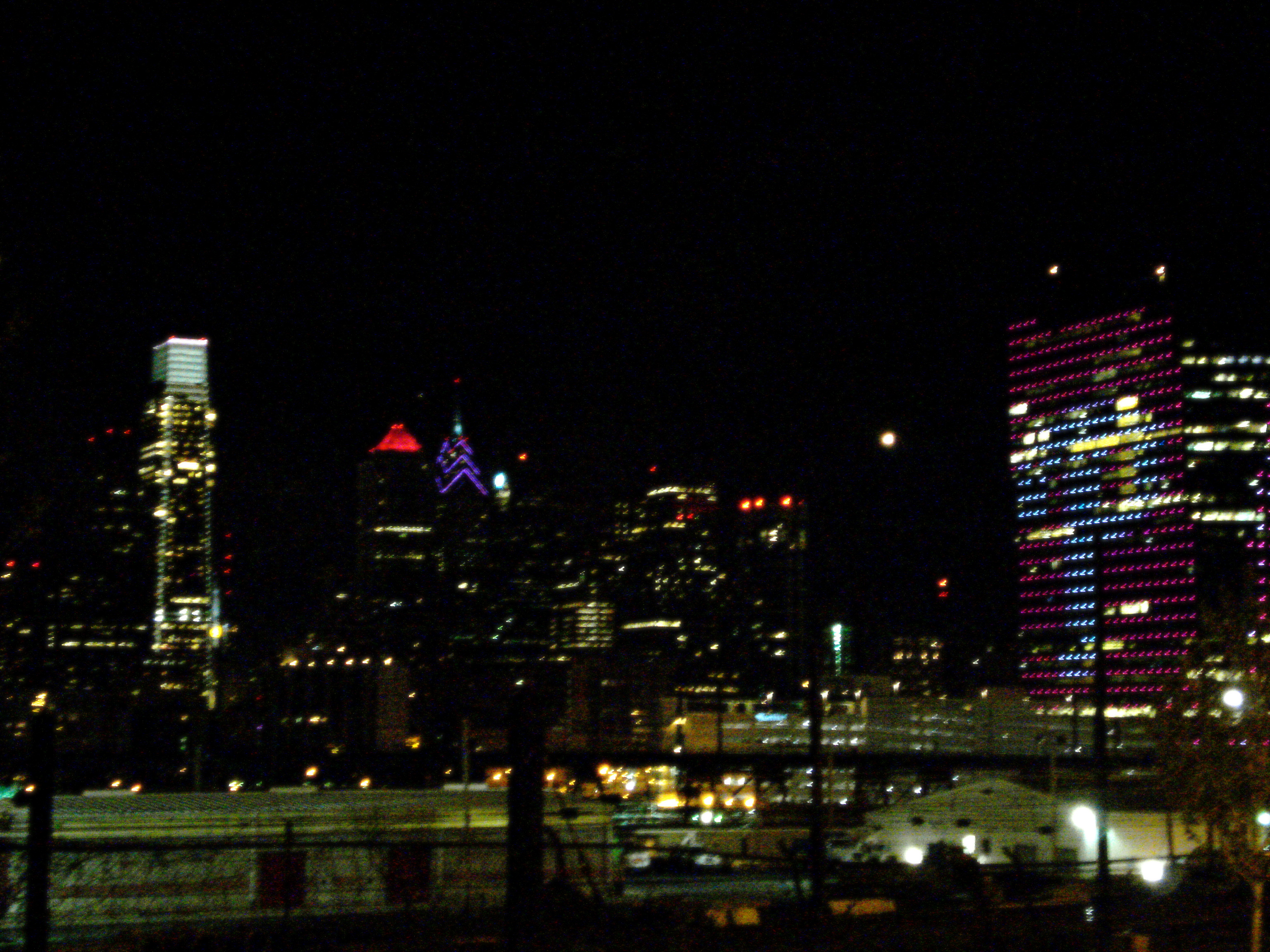 The Philadelphia Phillies logo displayed on the Cira Center in West Philadelphia, from Powelton Village.